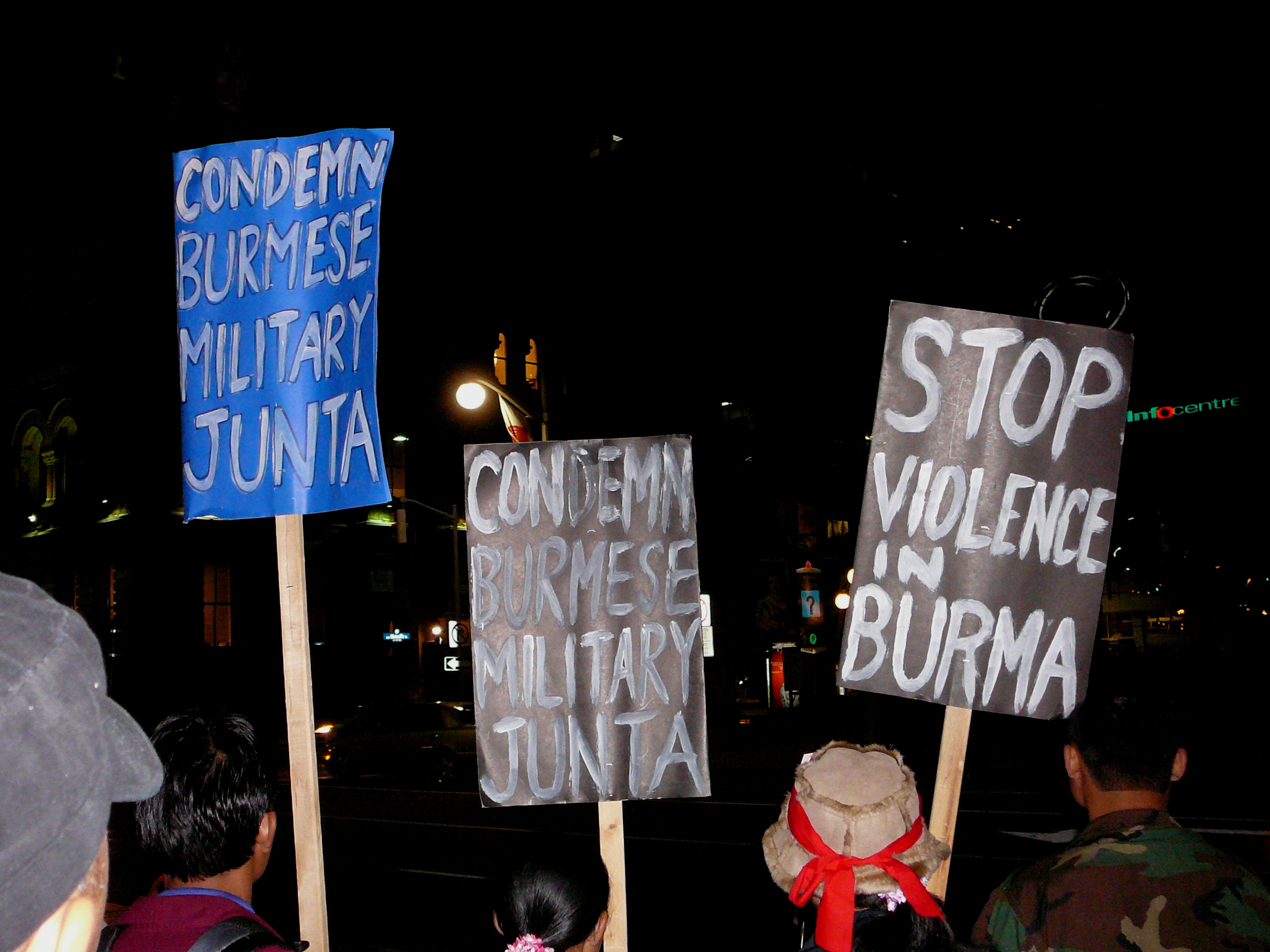 Myanmar's Pro-Democracy signs in Ottawa, Canada.